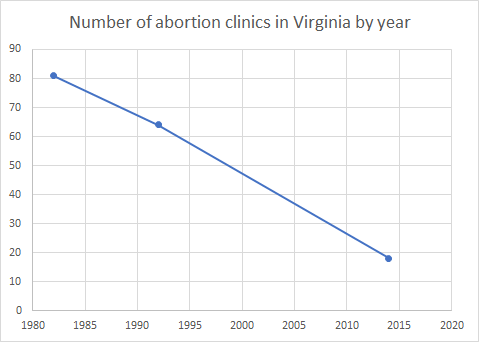 Number of abortion clinics in Virginia by year. Data is from articles linked at